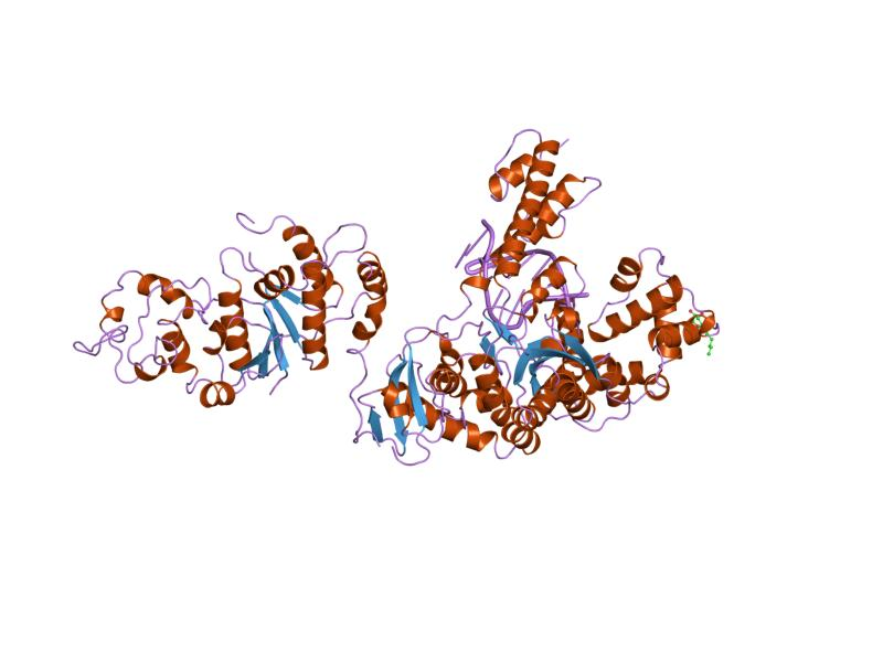 Cartoon representation of the molecular structure of protein registered with 1tau code.